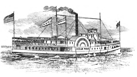 Ocean Wave, sidewheel steamboat of the Columbia River, later on San Francisco Bay.